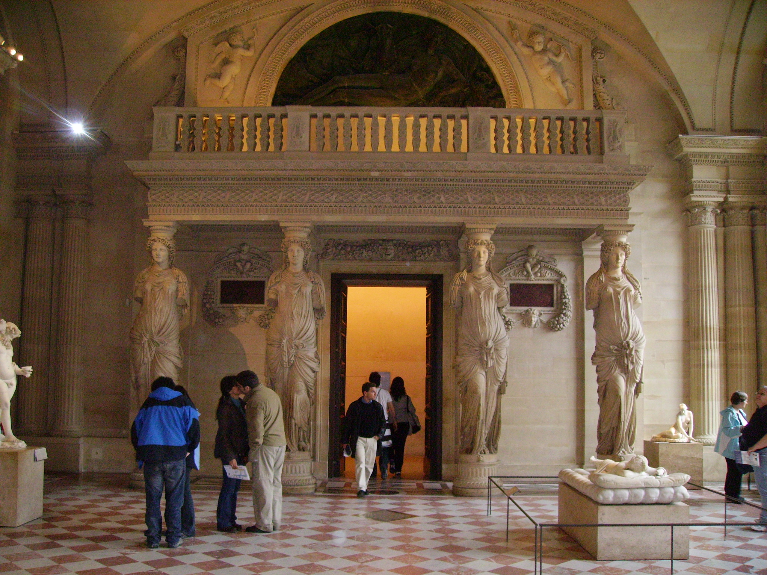 Caryatids the Louvre.